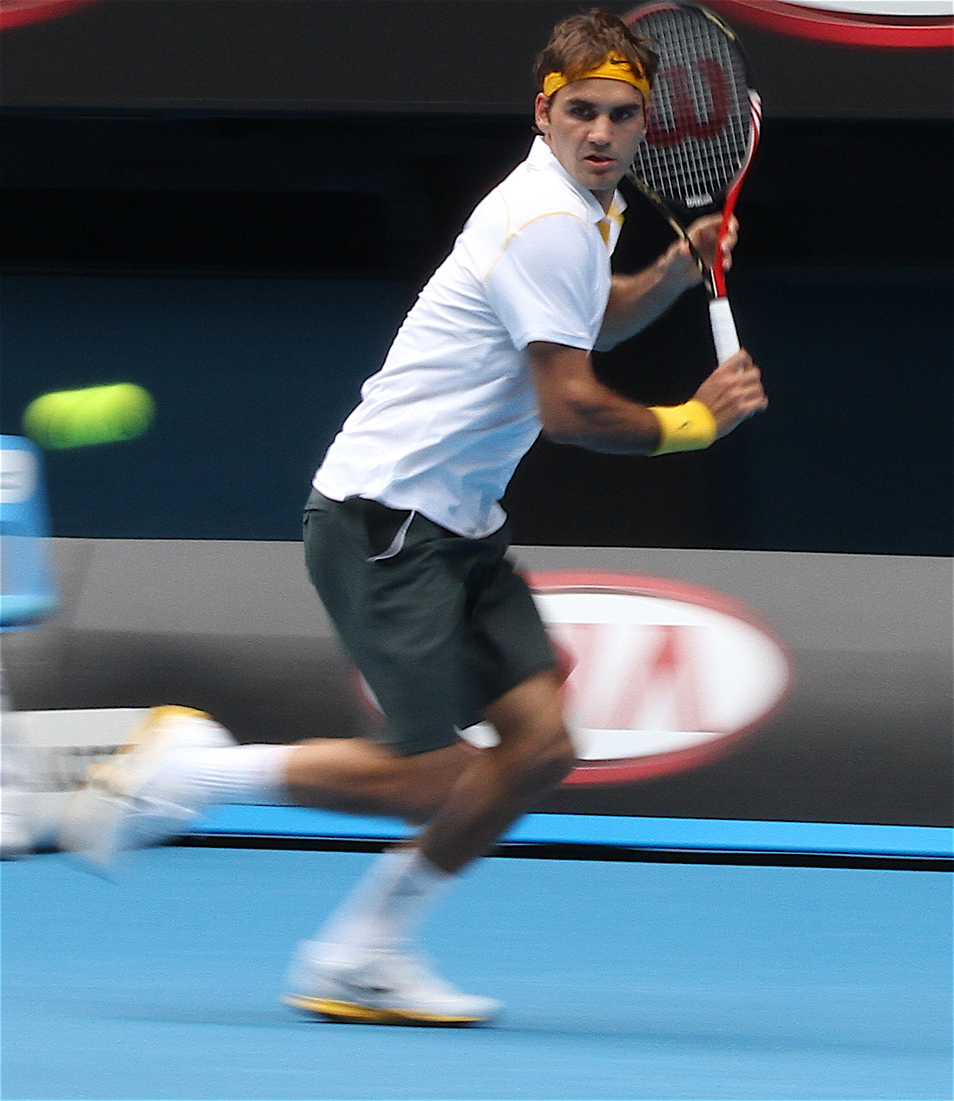 Federer backhand whilst on the run at the 2011 Australian open